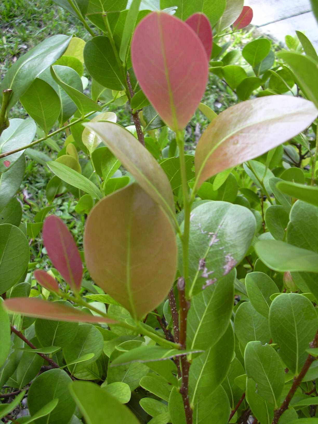 Chrysobalanus icaco (leaves). Location: Florida, Deering Park